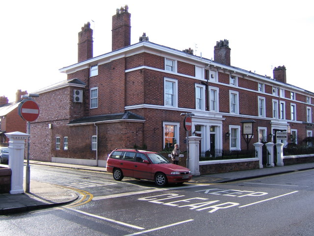 Birthplace of Leonard Cheshire VC No. 65 Hoole Road was the birthplace of G/Capt Geoffrey Leonard Cheshire, Baron Cheshire,VC,DM,DSO and Two Bars,DFC, 7th. September 1917.